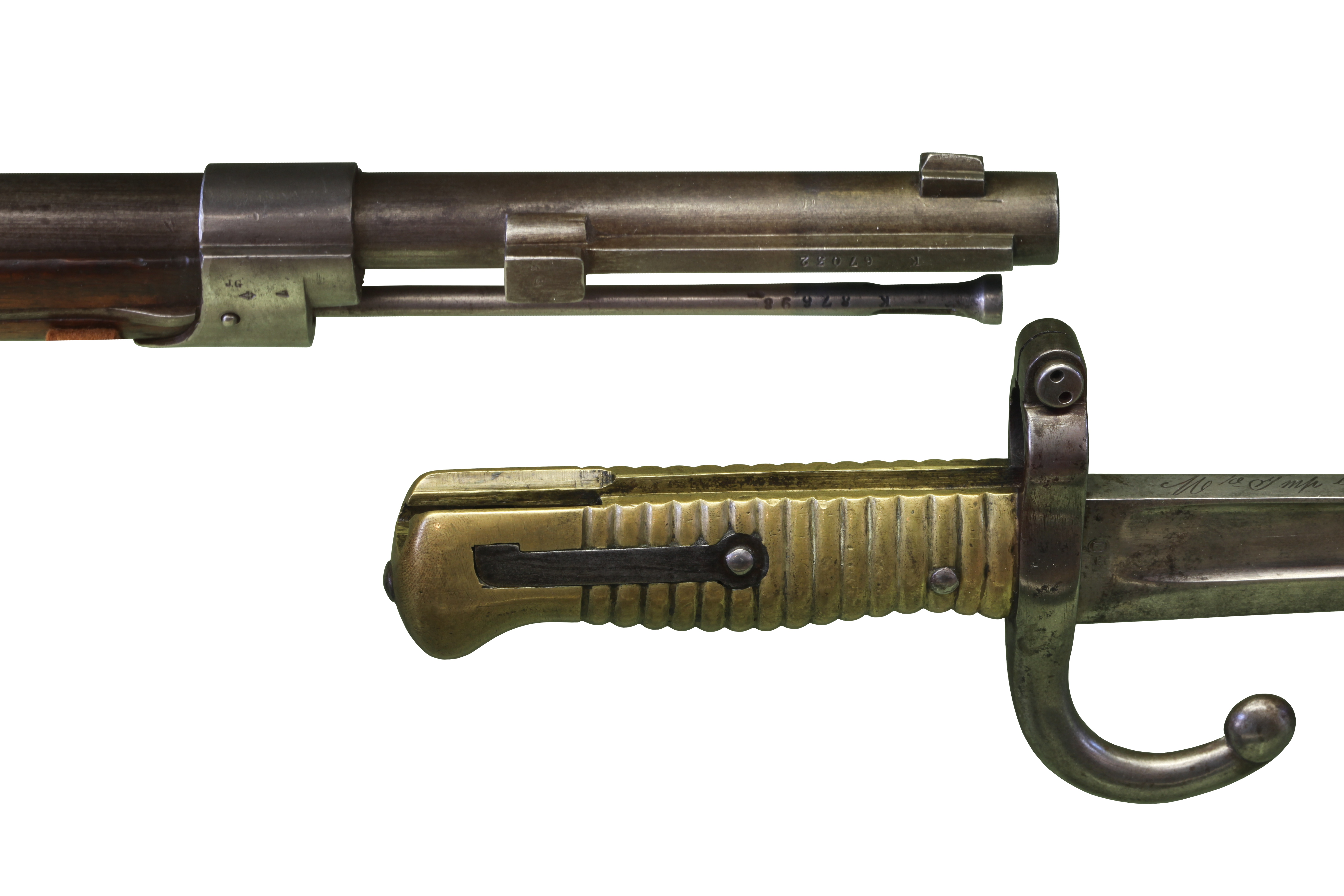 Chassepot